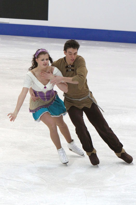 Nikola Višňová / Lukáš Csolley at the 2011 European Figure Skating Championships